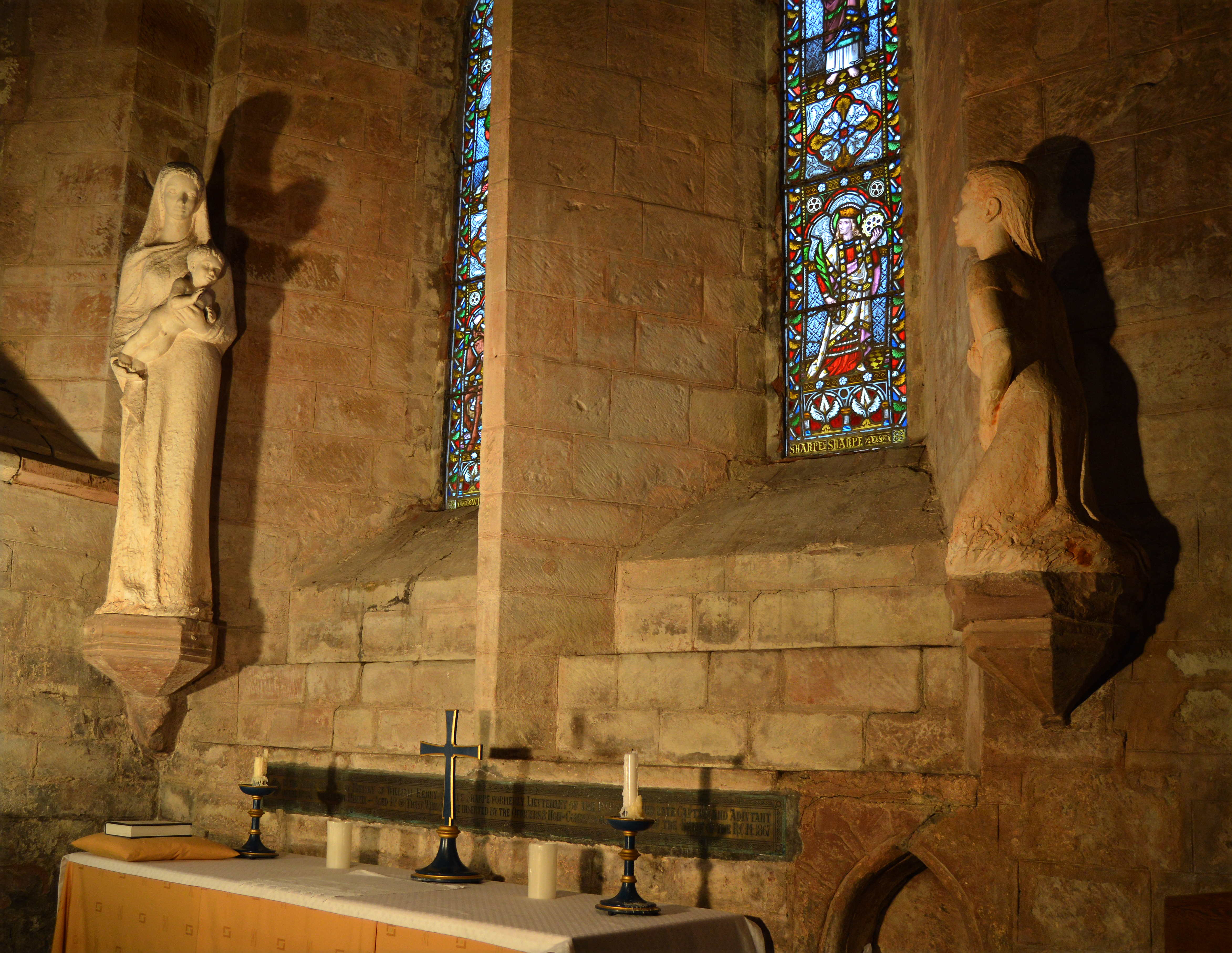 The "Vision of St. Bega" was unveiled on 6th September 1955. The work consists of two sculptures. On the right is the kneeling figure of St. Bega, and on the left is the Virgin and Child. Sculpted by Josefina de Vasconcellos. She was a younger contemporary of Barbara Hepworth and Henry Moore, and after the First World War she studied at the Regent Street Polytechnic, then in Paris and Florence.